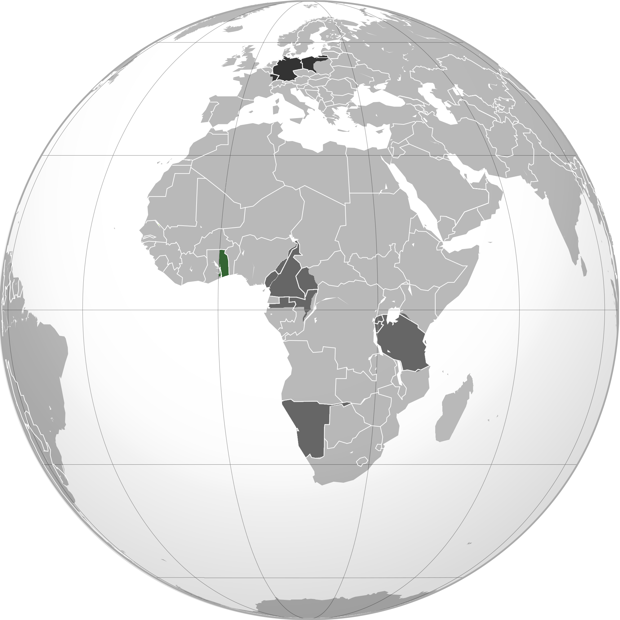 Green: Territory comprising German colony of German East AfricaDark gray: Other German possessionsDarkest gray: German Empire Note: The map uses the borders of the present-day, but the historical extent for German territories are depicted.